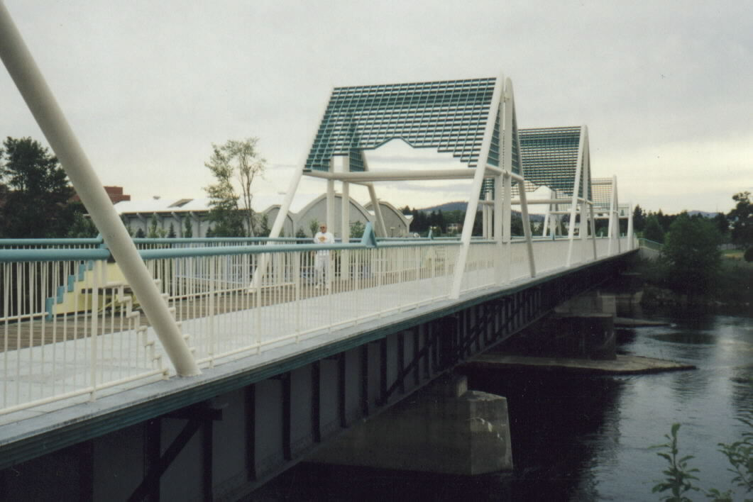 Starting somewhere west of the city, along the Spokane River, the Centennial Trail has to be one of the most impressive bike routes I have been on. Dramatic arches under the Monroe Street Bridge provide a backdrop for a gondola ride that is left over from when Spokane hosted Expo 74, otherwise known as the Spokane world's fair. Spokane is located in eastern part of Washington State. Trail goes into Idaho. I grew up in Pullman, not far from Spokane, and I remember laughing at the prospect of Spokane having a worlds fair. My grandmother described Spokane as a little wheat ranching town that just out grew its britches. At the hub of an area called the Inland Empire, Spokane serves as a trade center with all its "chamber of commerce style boosting" and bragadosio promoting. The little wheat town was too conservative to pass its school levy, sometime in the 1970s just before the fair, but plans for the fair continued. I remember thinking it was dumb to plan a worlds fair when the taxpayers were too cheap to support the schools, but funny as it seemed, the fair was a success. The old fair grounds have become one of the most beautiful urban parks I have experienced. River Front Park is right in the heart of the city and it makes good use of the thundering falls on the Spokane River. The Centennial trail wonders through the park catching the spray from the falls along with the gondolas. On Youtube, there is a great documentary from KSPS TV, in Spokane, about the 1974 worlds fair.